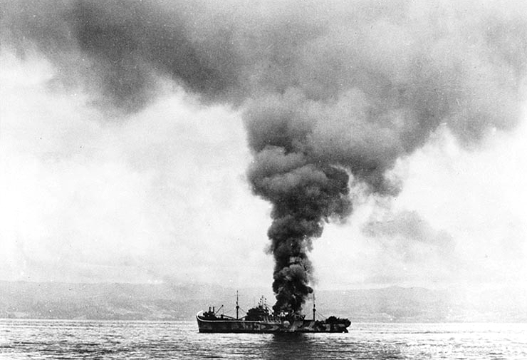 The U.S. Navy troop transport USS George F. Elliott (AP-13) burning between Guadalcanal and Tulagi, after she was hit by a crashing Japanese aircraft during an air attack on 8 August 1942.